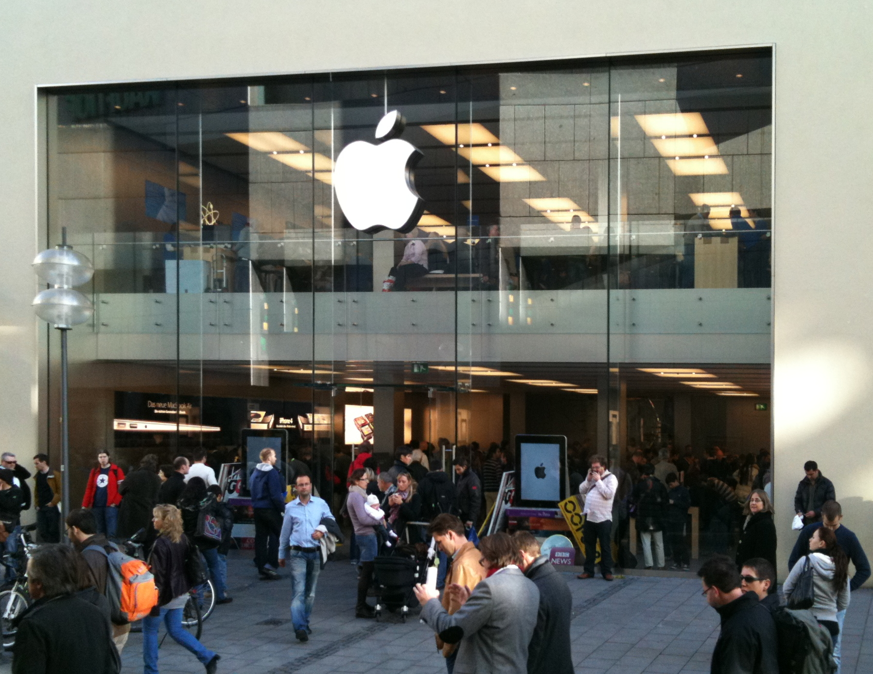 Apple Store in Munich